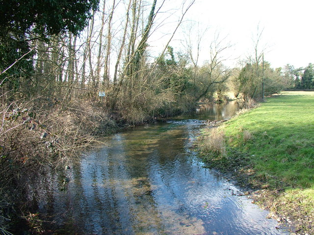 Mimram River Near Tewin. Taken from the bridge facing the small weir